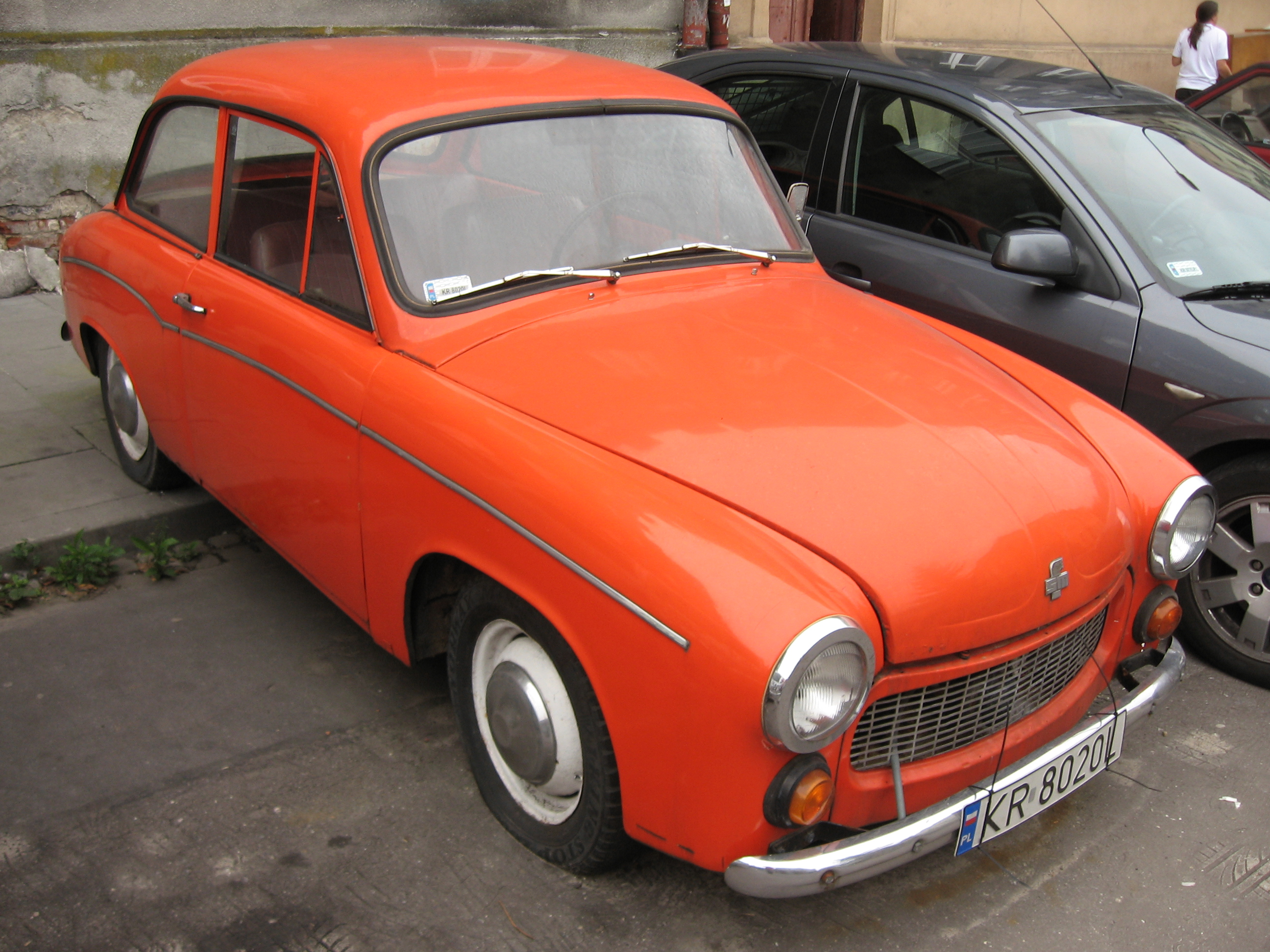 FSM Syrena 105L car in Kraków, Poland.